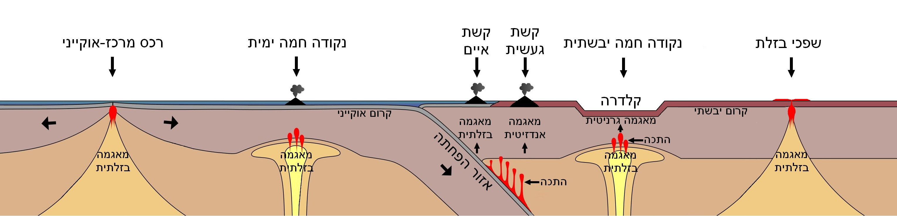 Regional magmatism and types of magma